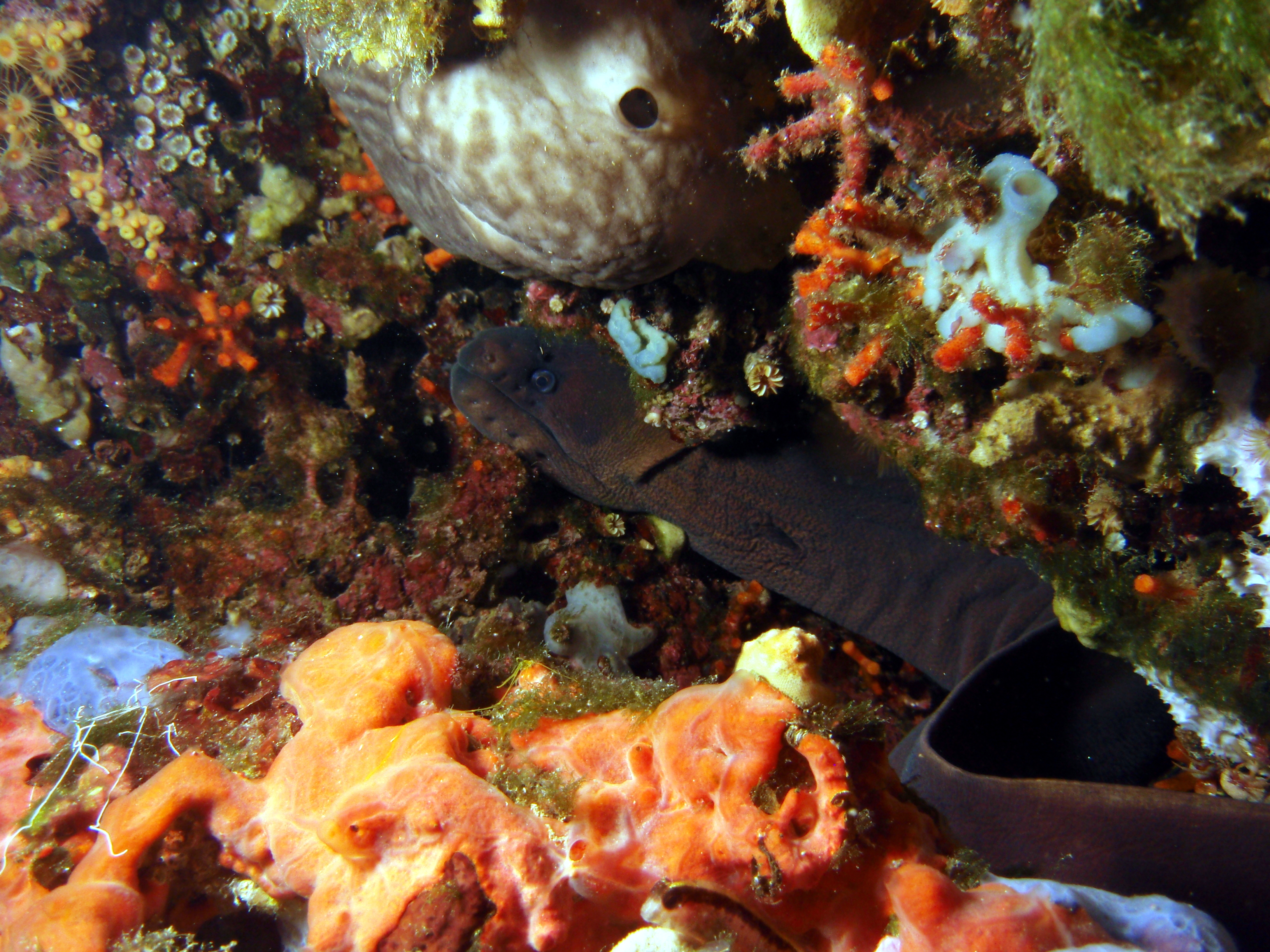 Gymnothorax unicolor. Brown moray.